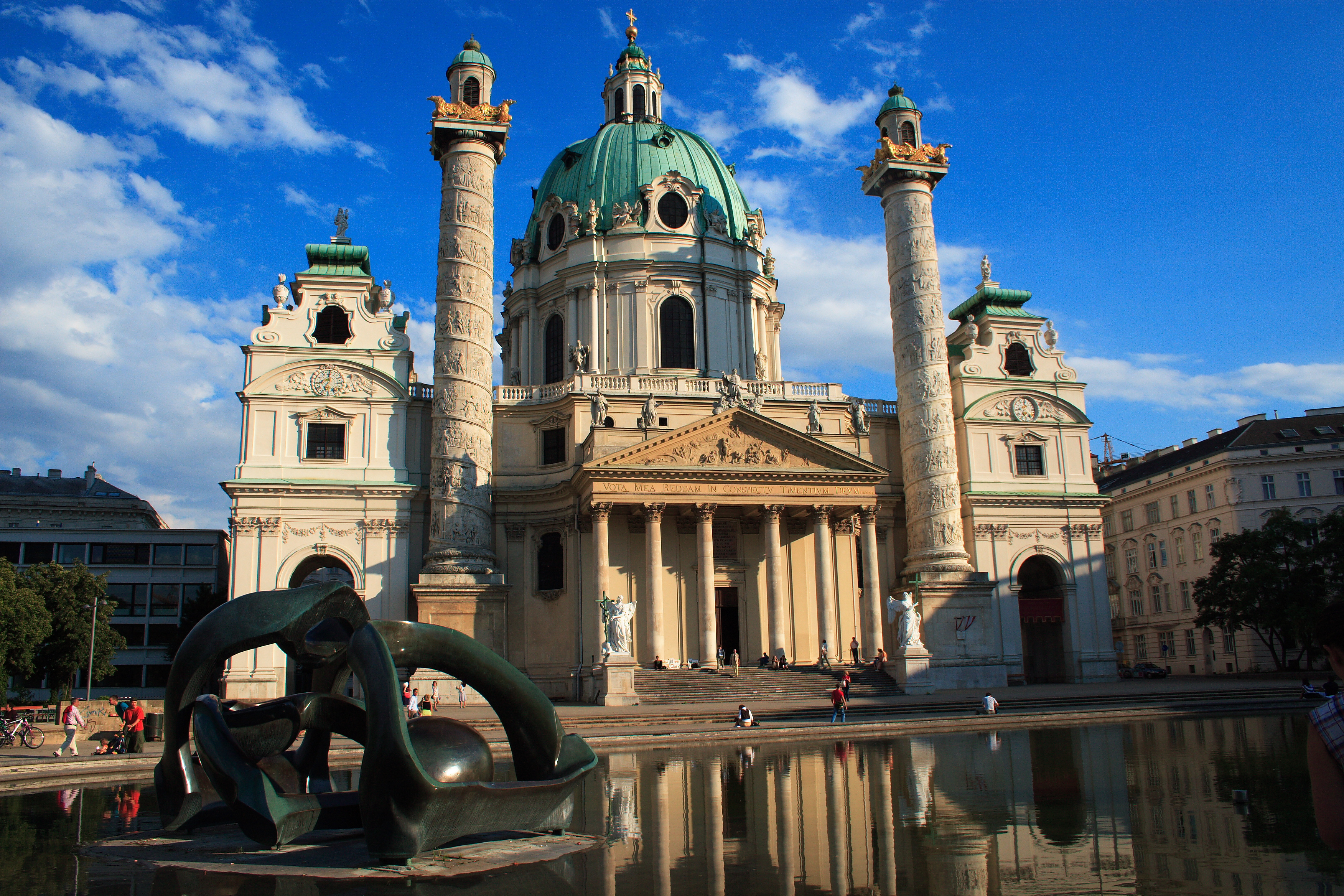 Austria, Vienna, St. Charles's Church